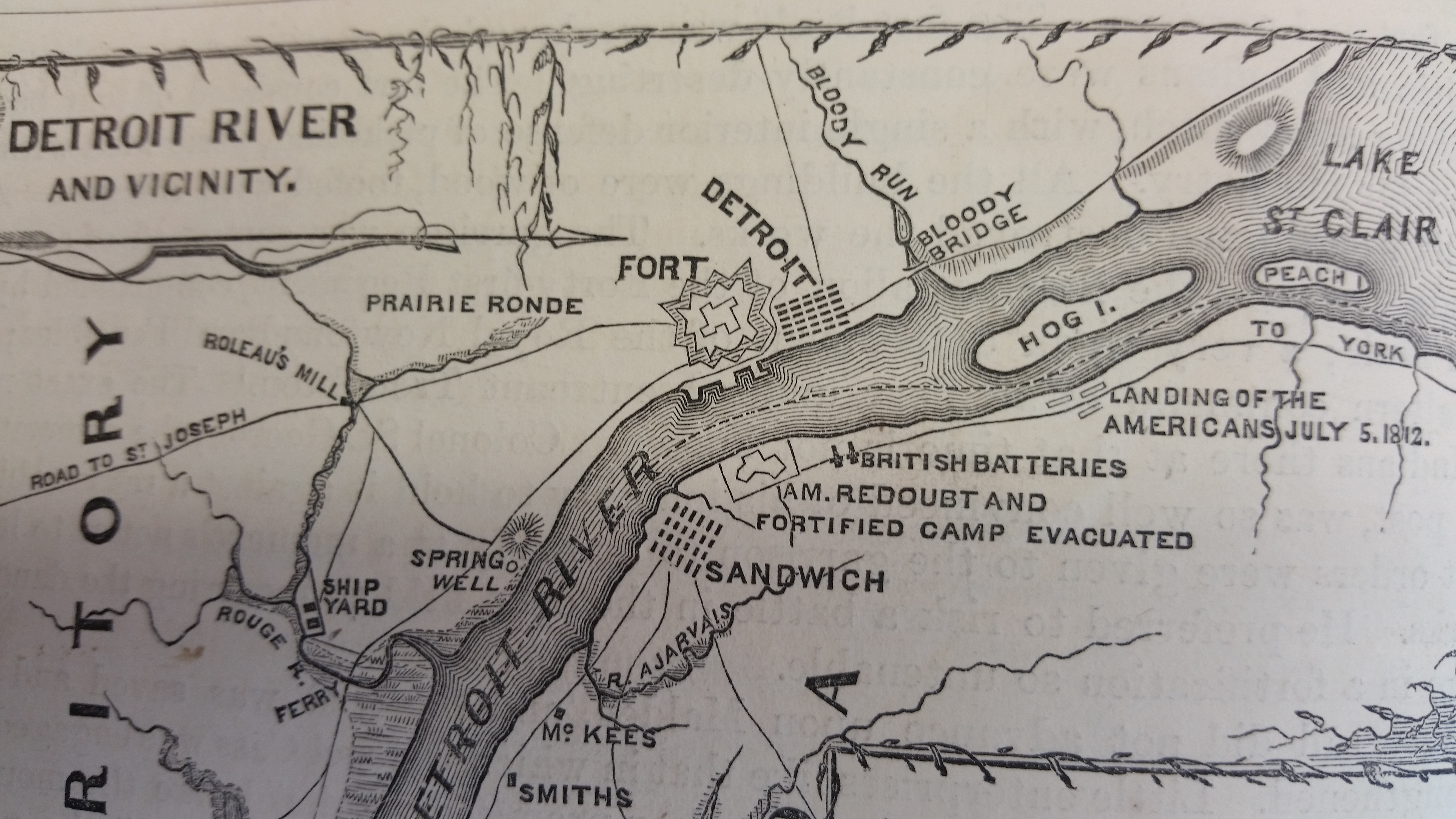 Fort Detroit (former Fort Shelby) and environs in the War of 1812